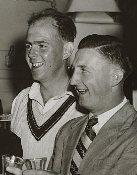 3rd Ashes Test at MCG. After the first days play the Aussies collected in the dressing room to toast each other for the new year. L-R: Bill Johnson, Les Favell